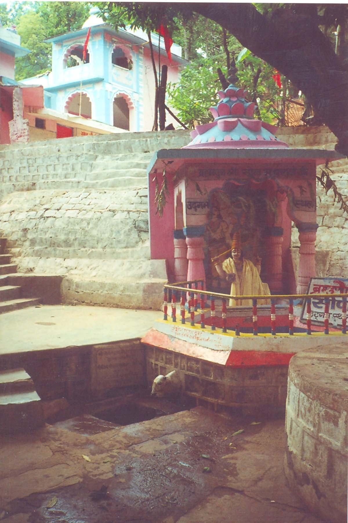 Sonemuda, i.e. place of origin of Sone River at Amarkantak.